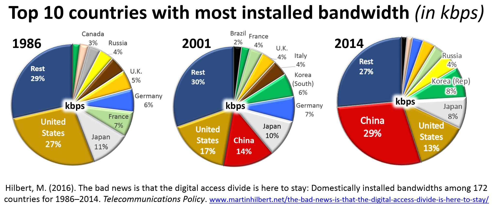 In 2014 only 3 countries host 50% of the globally installed bandwidth potential (10 countries almost 75%). The U.S. lost its global leadership in 2011, being replaced by China, which contributes more than twice as much national bandwidth potential in 2014 (29% versus 13%).